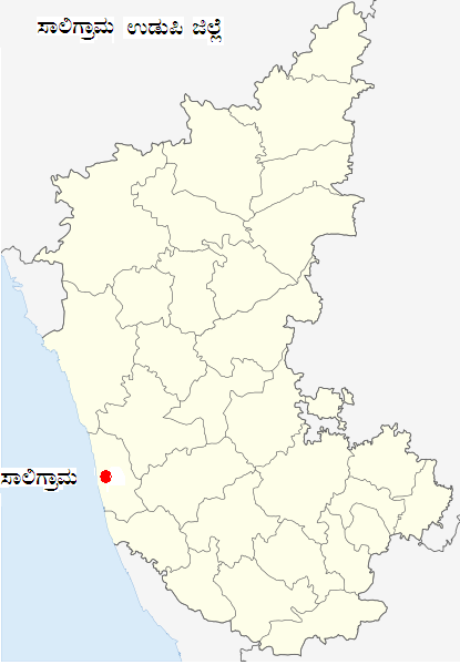 ಸಾಲಿಗ್ರಾಮ Saligrama